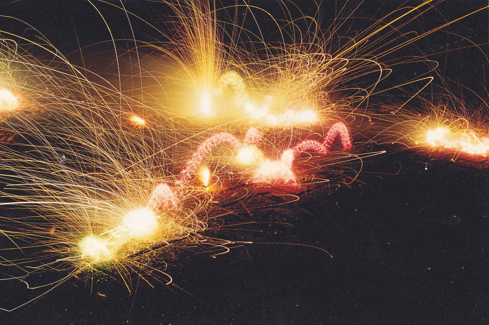 A few grond fireworks flowers in Holland